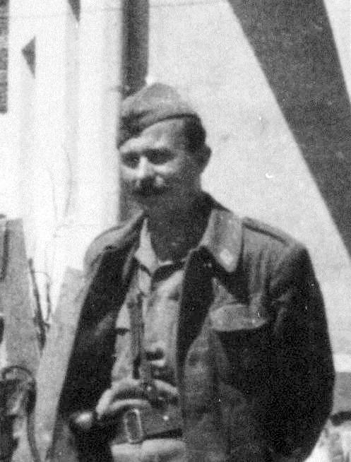 Ljubo Vučković (1915-1976)